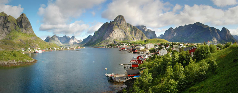 View of small village of Reine on Lofoten, Norrway